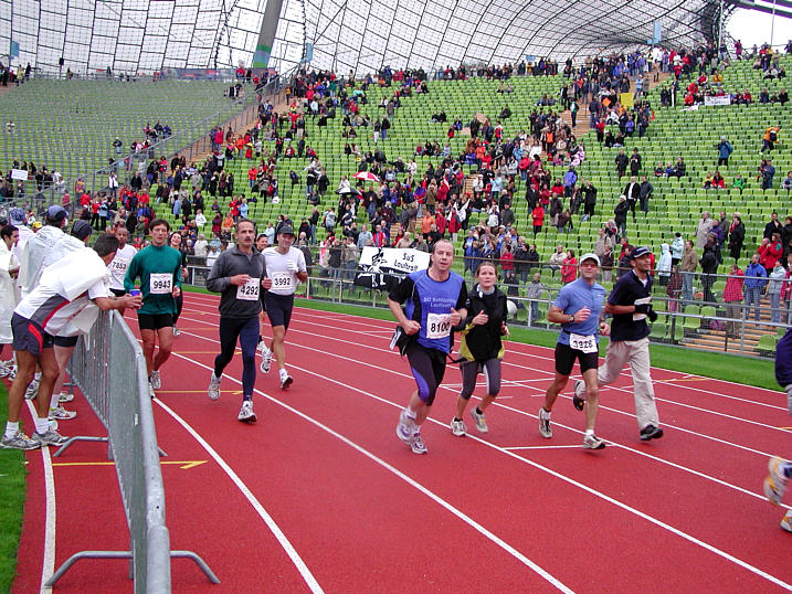 Munich Marathon 2004: Finish in Olympic Stadium, Munich, Bavaria.